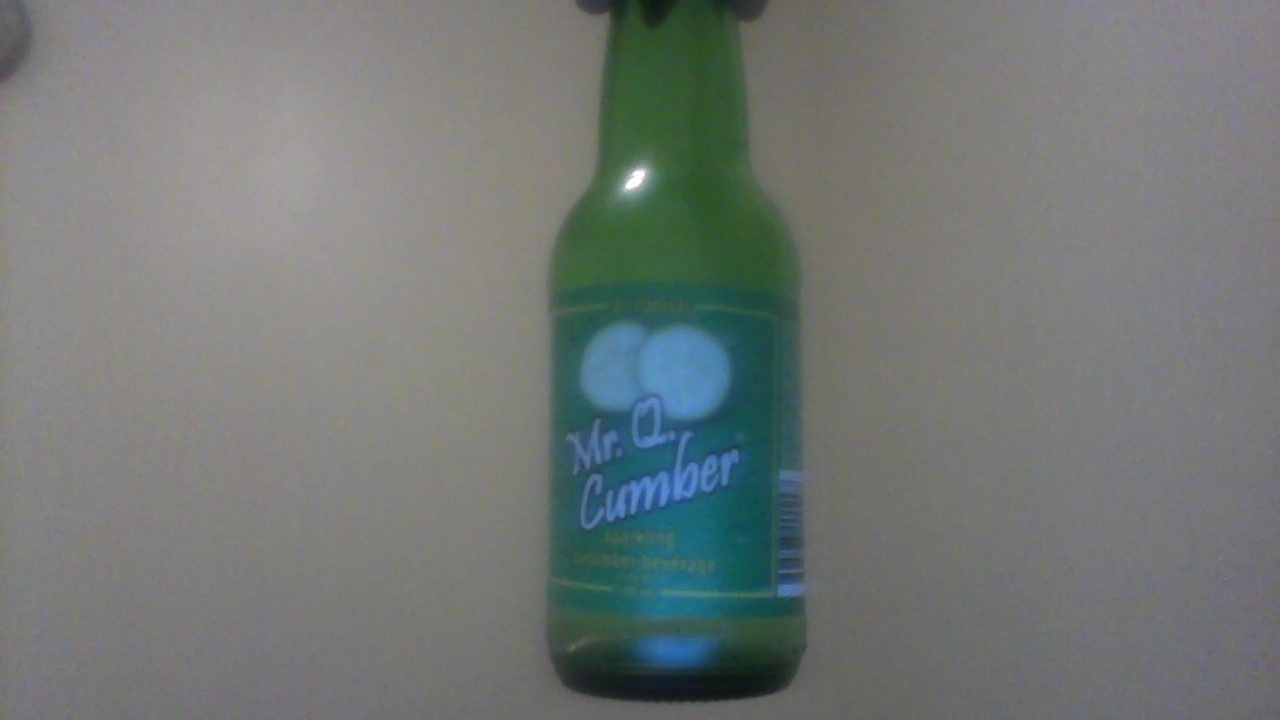 Glass soda bottle.